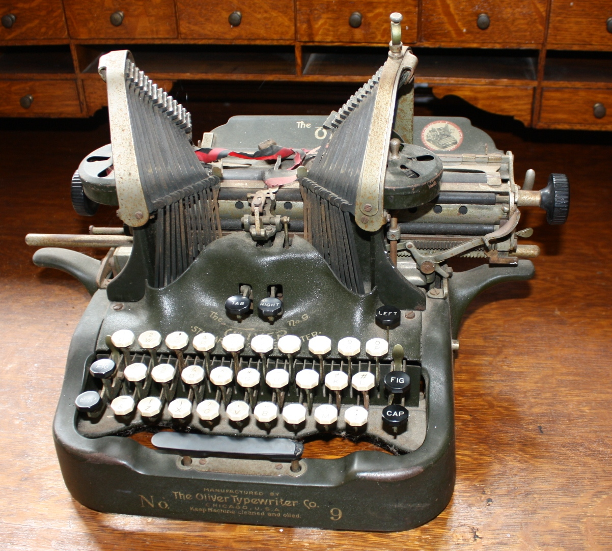 A No. 9 Oliver Typewriter Company typewriter on display at a museum in Wisconsin.